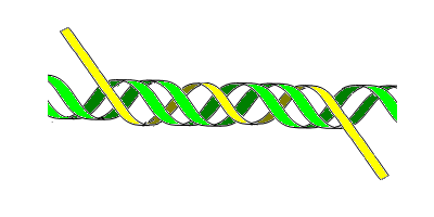 Figure rotated for 90 degrees.